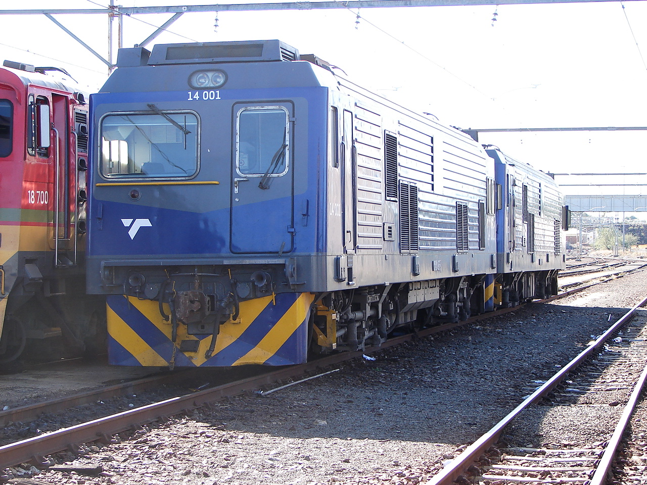 Spoornet Class 14E 14-001Builder's Number: HST 16657-1-3/1988Location: Beaufort West, Western Cape